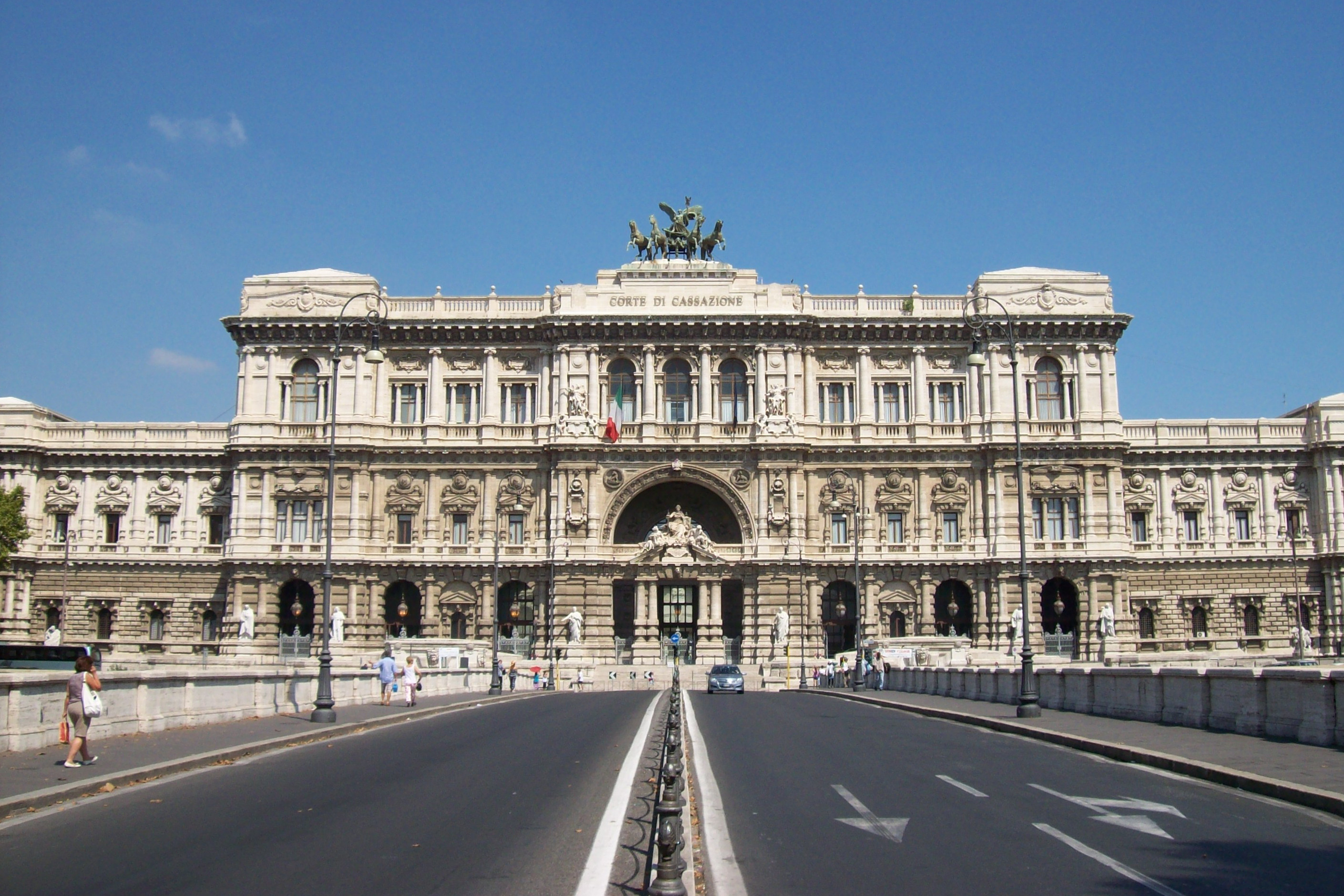 The Palace of Justice in Rome, Italy, seat of the Supreme Court of Cassation. View from the opposite side of Umberto I bridge.